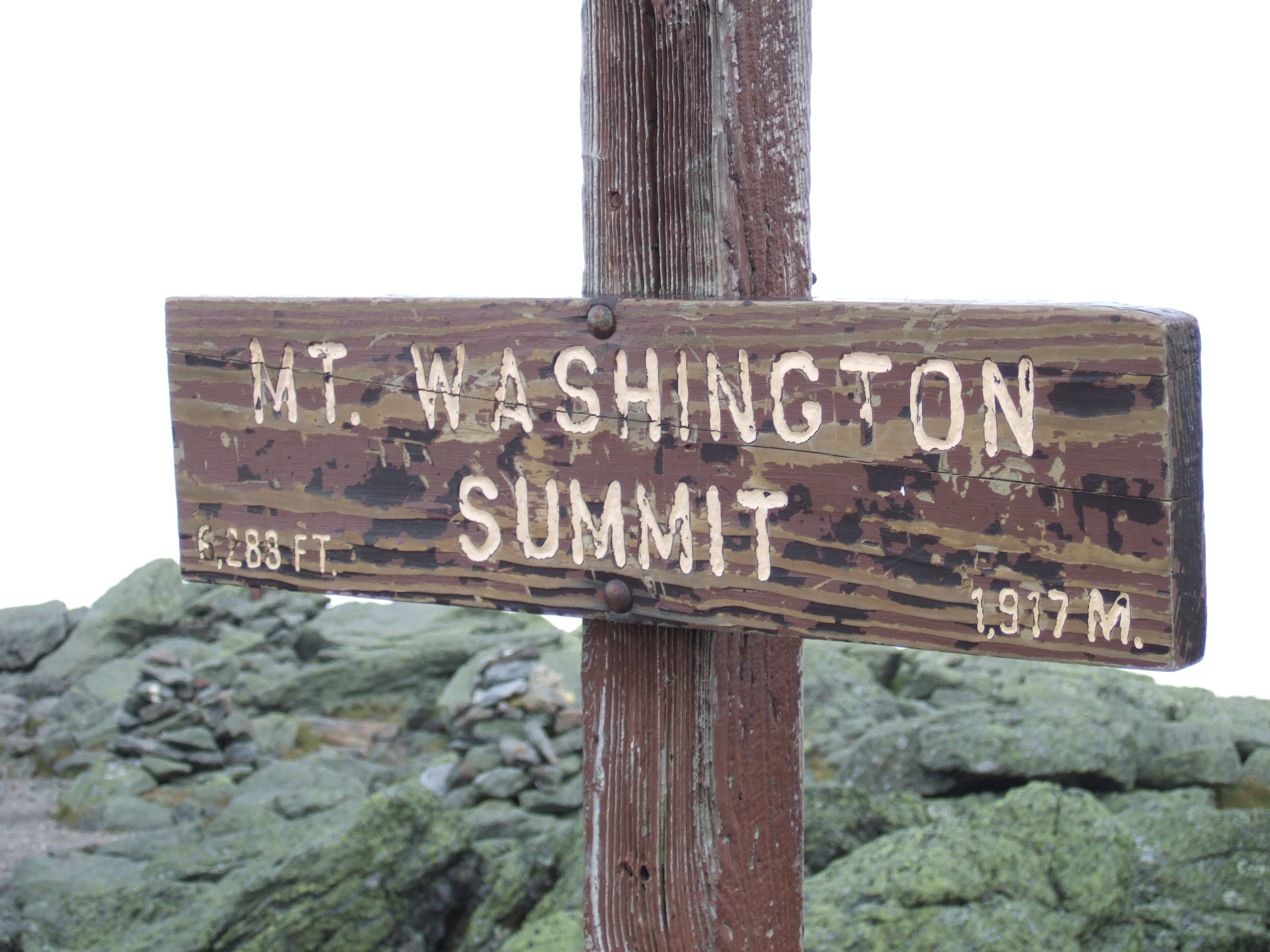 Sign at the summit of Mount Washngton, New Hampshire, United States. (1,917m/6,288ft)